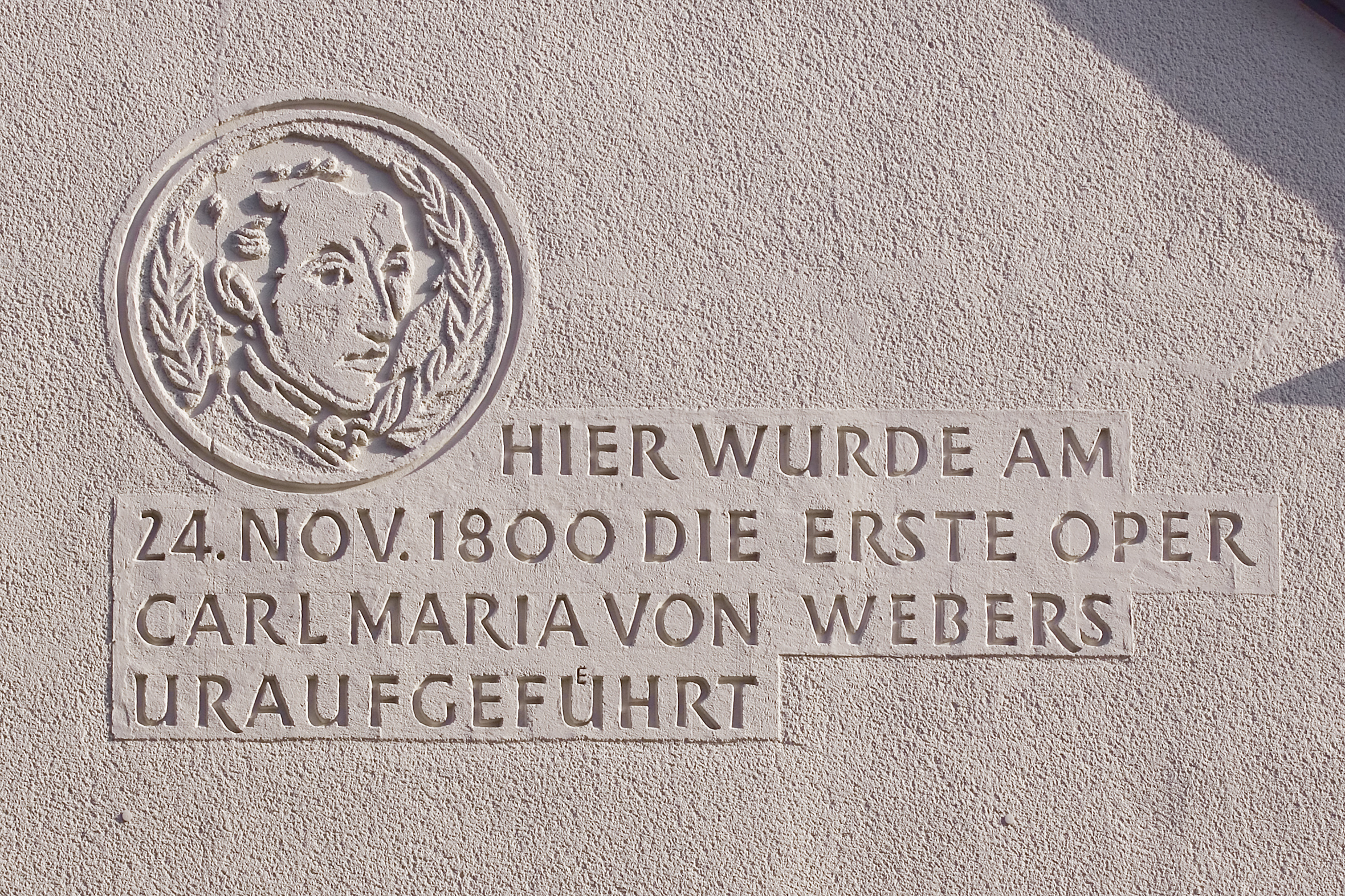 The first performance of the first opera by Carl Maria von Weber took place in the Freiberg theatre.